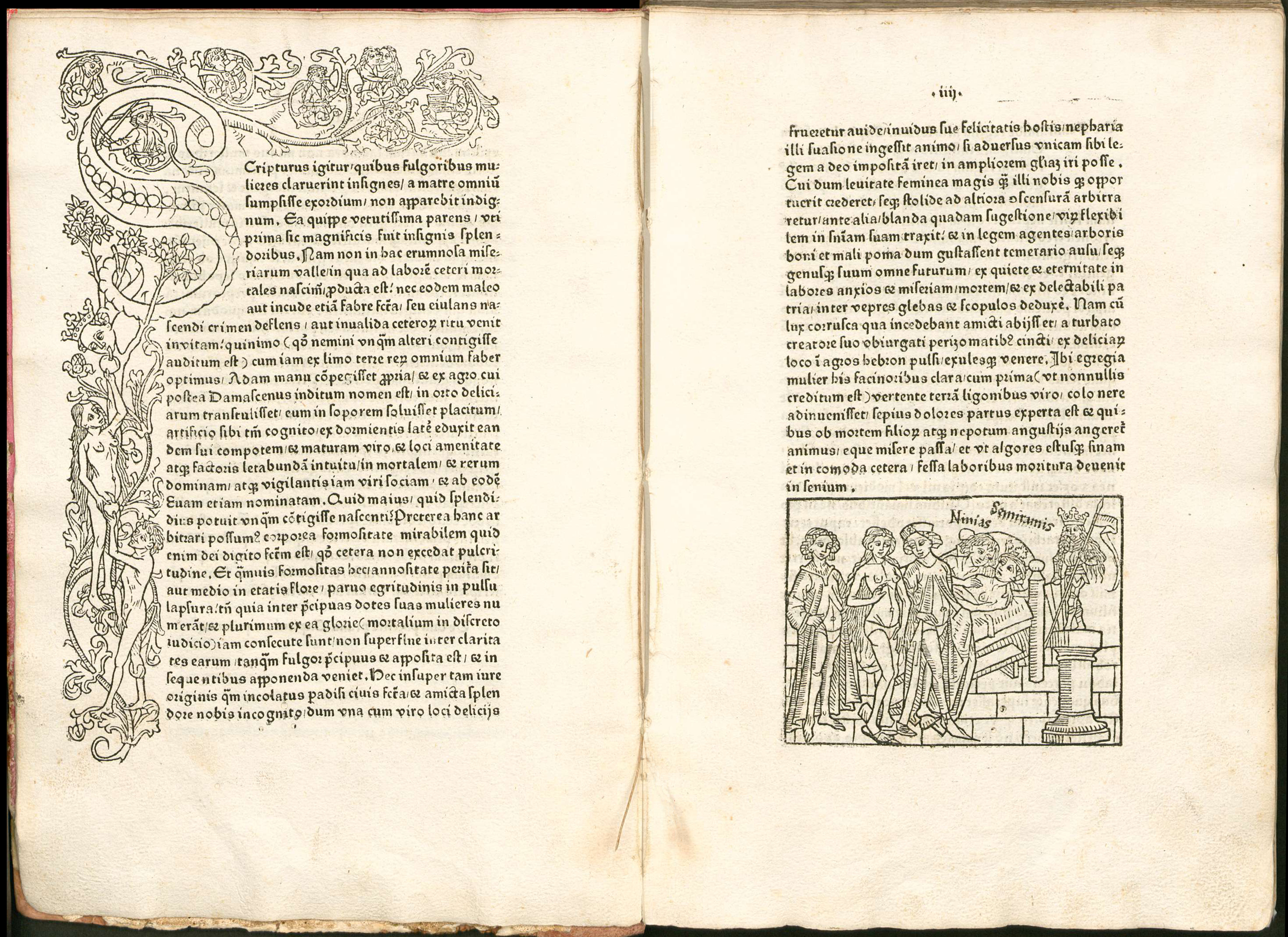 Spread of the De claris mulieribus printed by Johann Zainer in 1473, copy of the Bayerische Staatsbibliothek